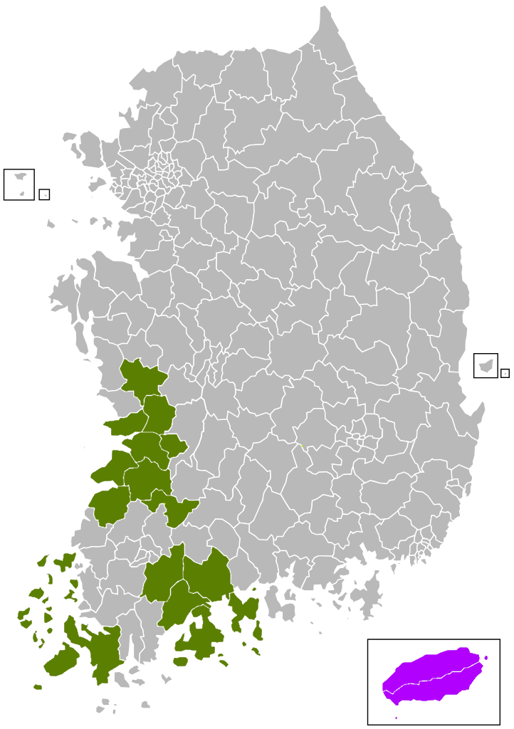 Distribution of life replacement narratives across second-level administrative divisions of South Korea. In these shamanic myths, a man (or men) is forewarned of his impending death and makes offerings to the chasa, the gods of death who kill those whose time is due and take away their souls to the afterlife. The chasa unwittingly accept the offerings before realizing that that they have accepted gifts from the man that they were supposed to kill. As they cannot ignore his gifts, they decide to spare his life and take the soul of another human or animal in his place. Source file on Commons. Source for data: " 전설과의 비교를 통해서 본 의 인물 형상화 방식과 신화적 의미" by 최원오, 2017.